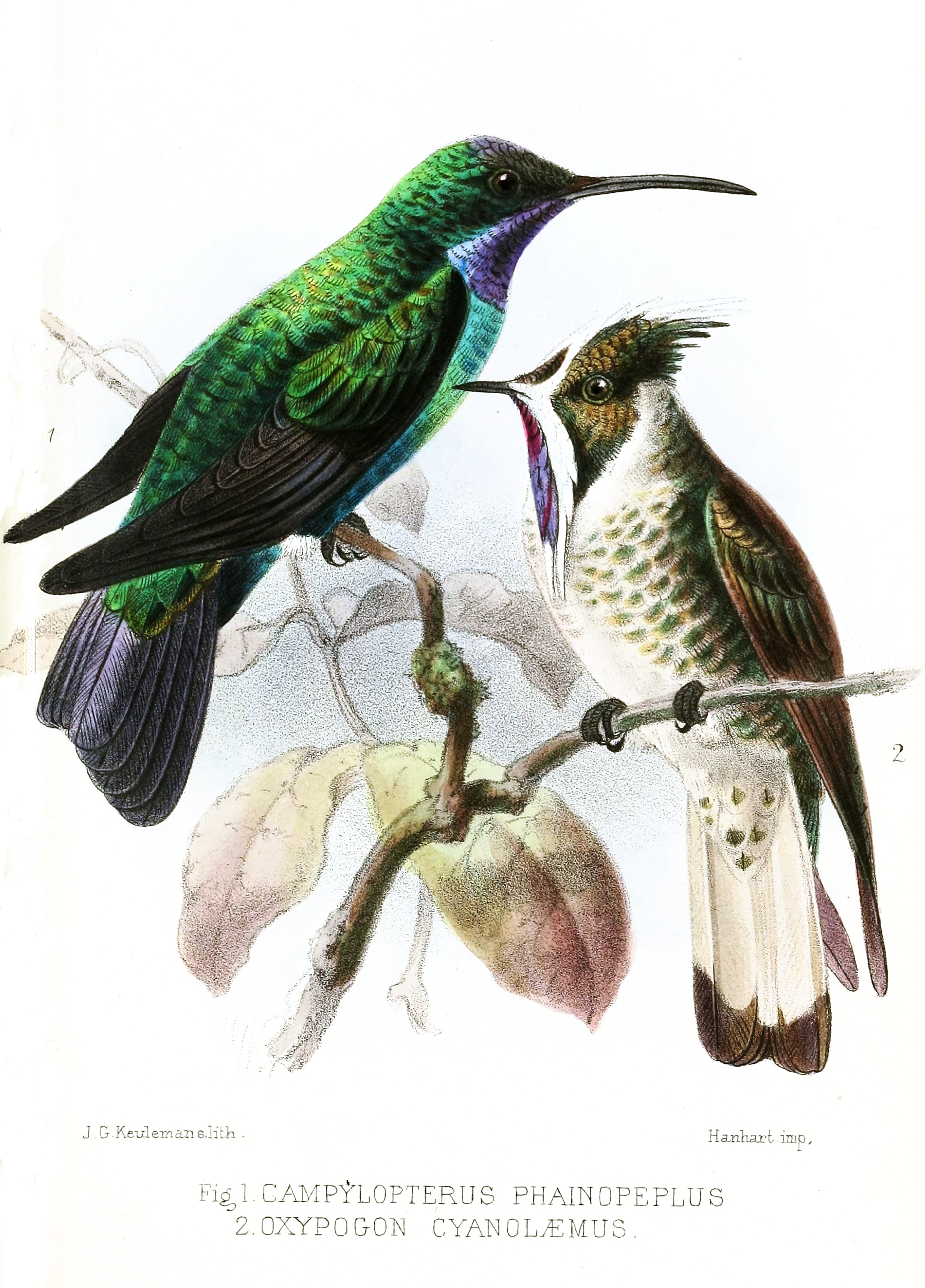 « Campylopterus phainopeplus » = Campylopterus phainopeplus (Santa Marta Sabrewing) « Oxypogon cyanolaemus » = Oxypogon guerinii cyanolaemus (Subspecies of Bearded Helmetcrest)